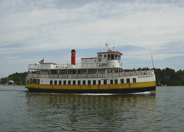 Casco Bay Lines ferry Aucocisco III passing Peaks Island, summer 2006